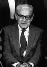 1992 Byzantine Studies Symposium Group at Dumbarton Oaks. Back row (standing) from left to right: Henry Maguire, Ioli Kalavrezou, Gilbert Dagron, Marie-Theres Fogen, J.H.A. Lokin, Angeliki E. Laiou, Dr. Paul Magdalino, Ruth Macrides, George T. Dennis Front row (seated) from left to right: Anna Kartsonis, Aleksandr Kazhdan, Dieter Simon, Kathleen Anne Corrigan, Ioannes M. Konidares, Helen Saradi-Mendelovici